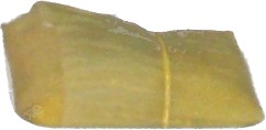 A pamonha, a traditional food in Brazil